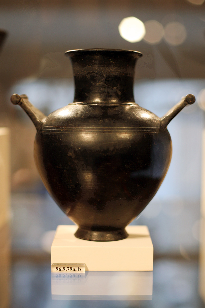 Metropolitan Museum of Art # 96.9.79a,b Photographer: Katie Chao